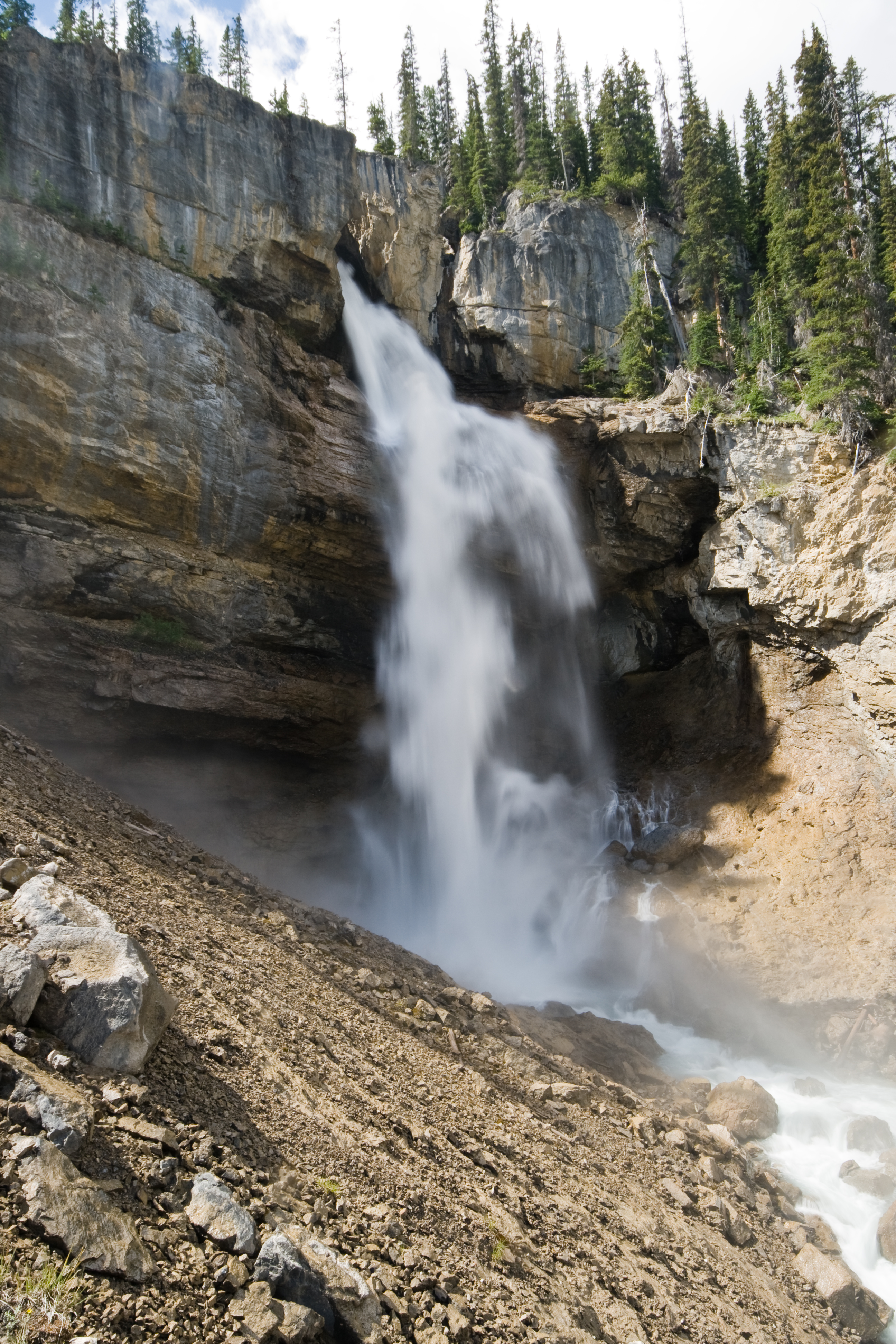 Panther Falls, located in Banff National Park, near the Icefields Parkway at the "Big Bend", South of the Columbia Icefields